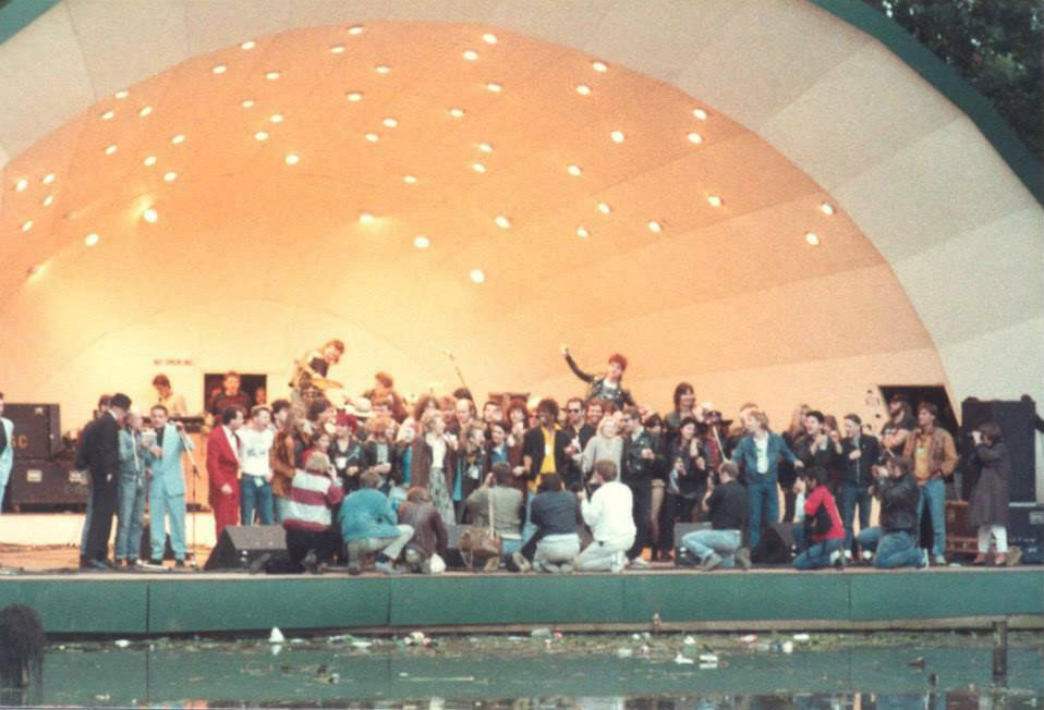 Dame Vera Lynn joining Hawkwind, Spear of Destiny, Dr & the Medics, Comsat Angels, The Enid, The March Violets, The Armoury Show, Balaam & the Angel, and Eddy Armani for the finale of a benefit gig for Pete Townshend's Double-O anti-heroin charity. Crystal Palace Bowl, 24 August 1985.